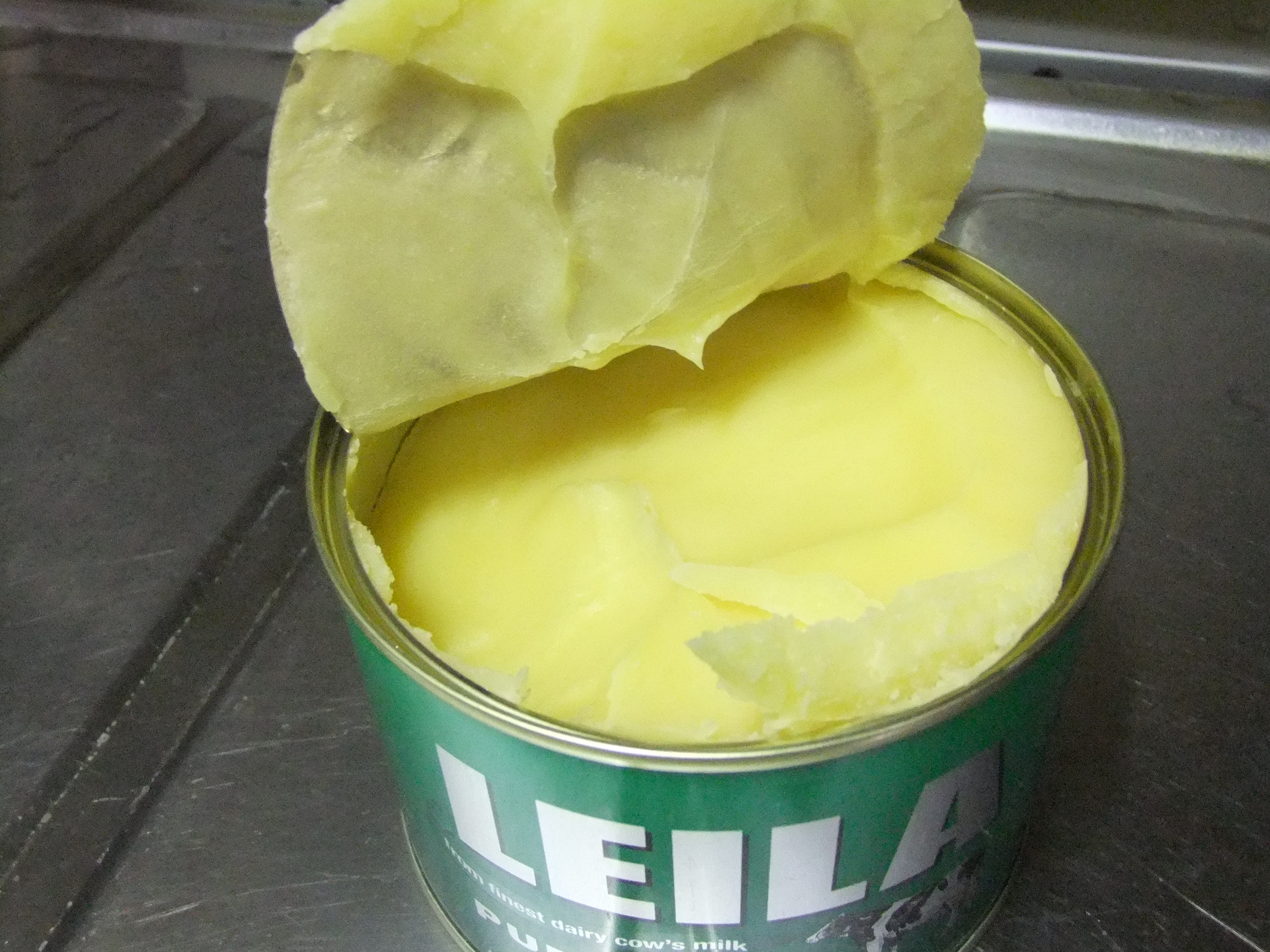 Ghee